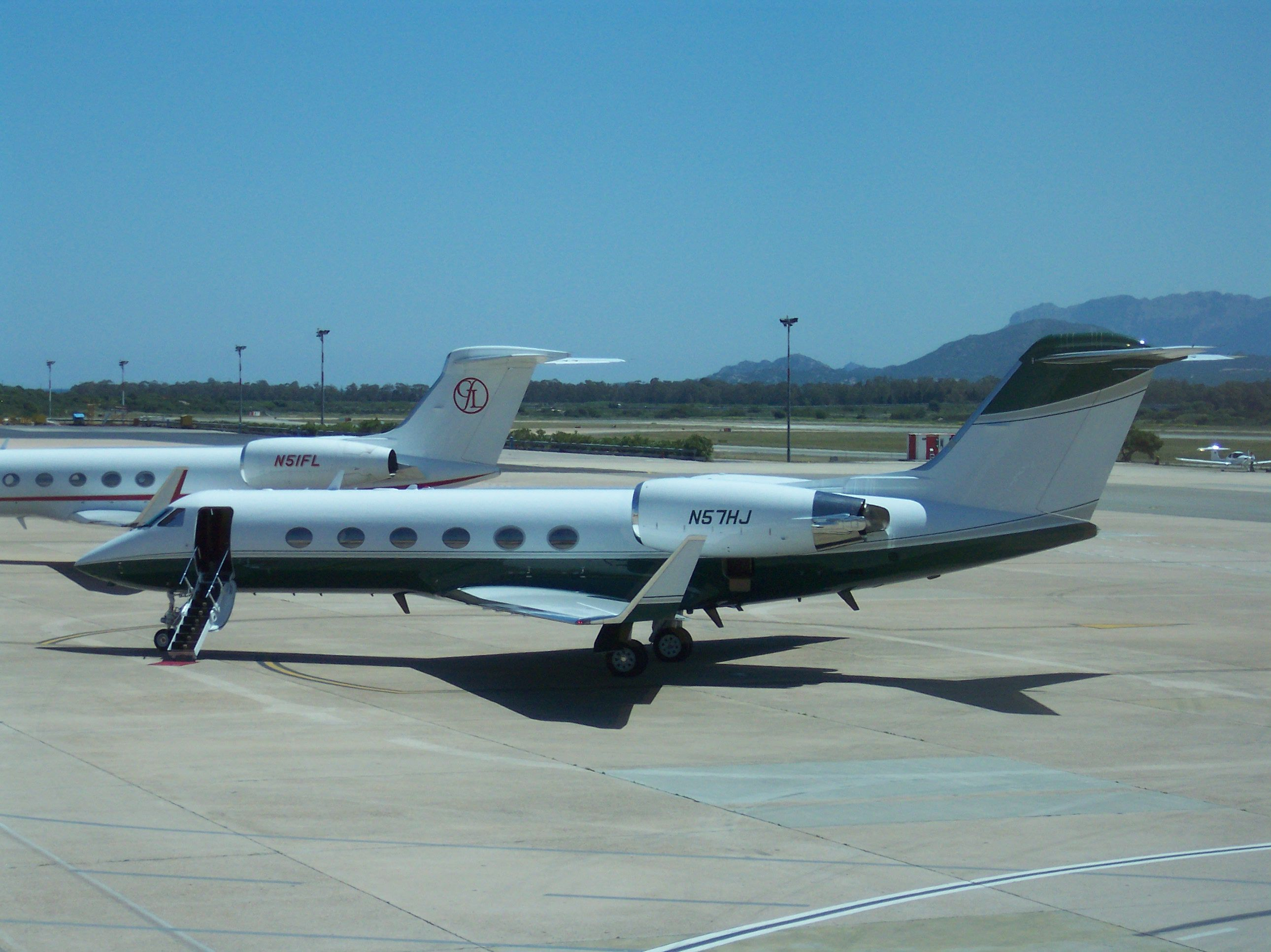 Gulfstream G400 N57HJ